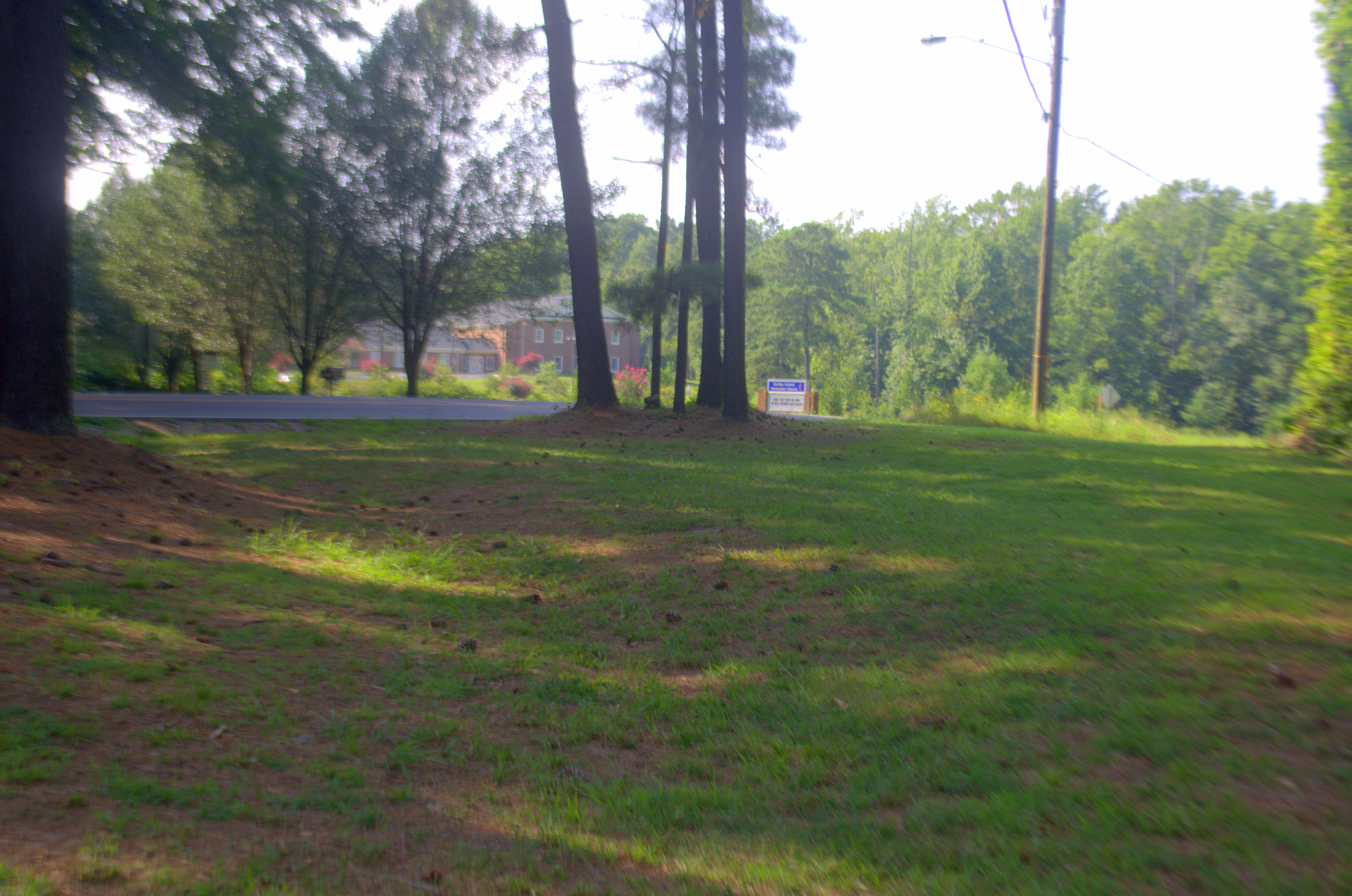 This is the Railroad Bed of the Clover Hill Railroad, Brighthope Railway, Farmville and Powhatan Railroad and Tidewater and Western Railroad at Winterpock, Virginia.